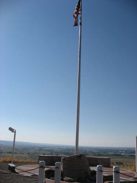 Freezeout Hill Memorial, Emmett, Idaho